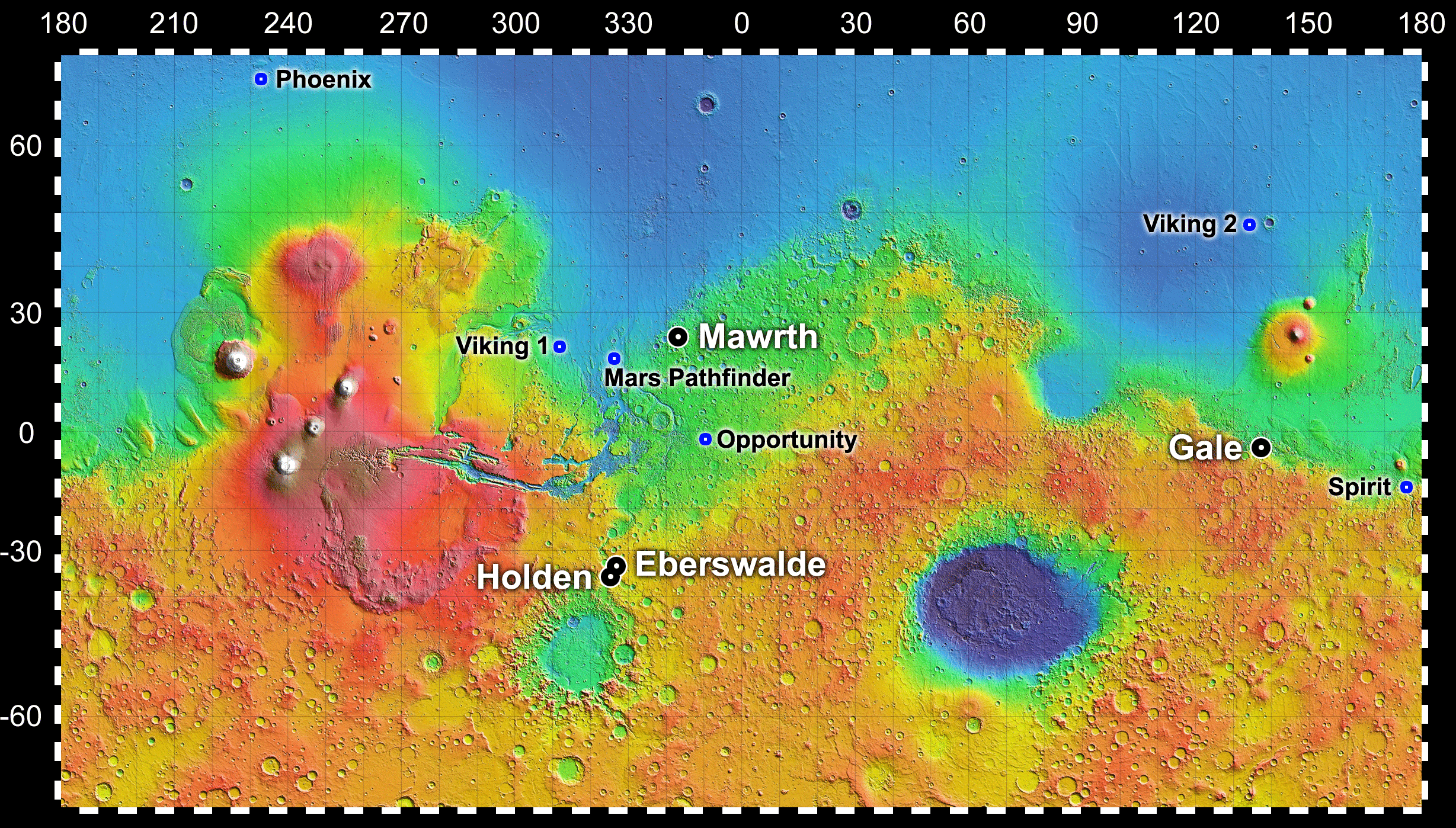 Four Finalist Landing Site Candidates for Mars Science Laboratory. cropped version